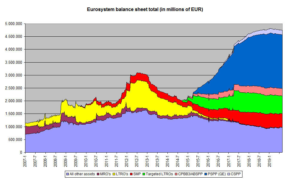 Development of balance sheet total of the Eurosystem, i.e., The European Central Bank and the central banks of the countries using the euro. To be updated regularly. Theoretically, this could be updated weekly, but I don't think I'll manage that. Data obtained from the ECB website, Statistical Data Warehouse, search query ILM.W.U2.C.T000.Z5.Z01.